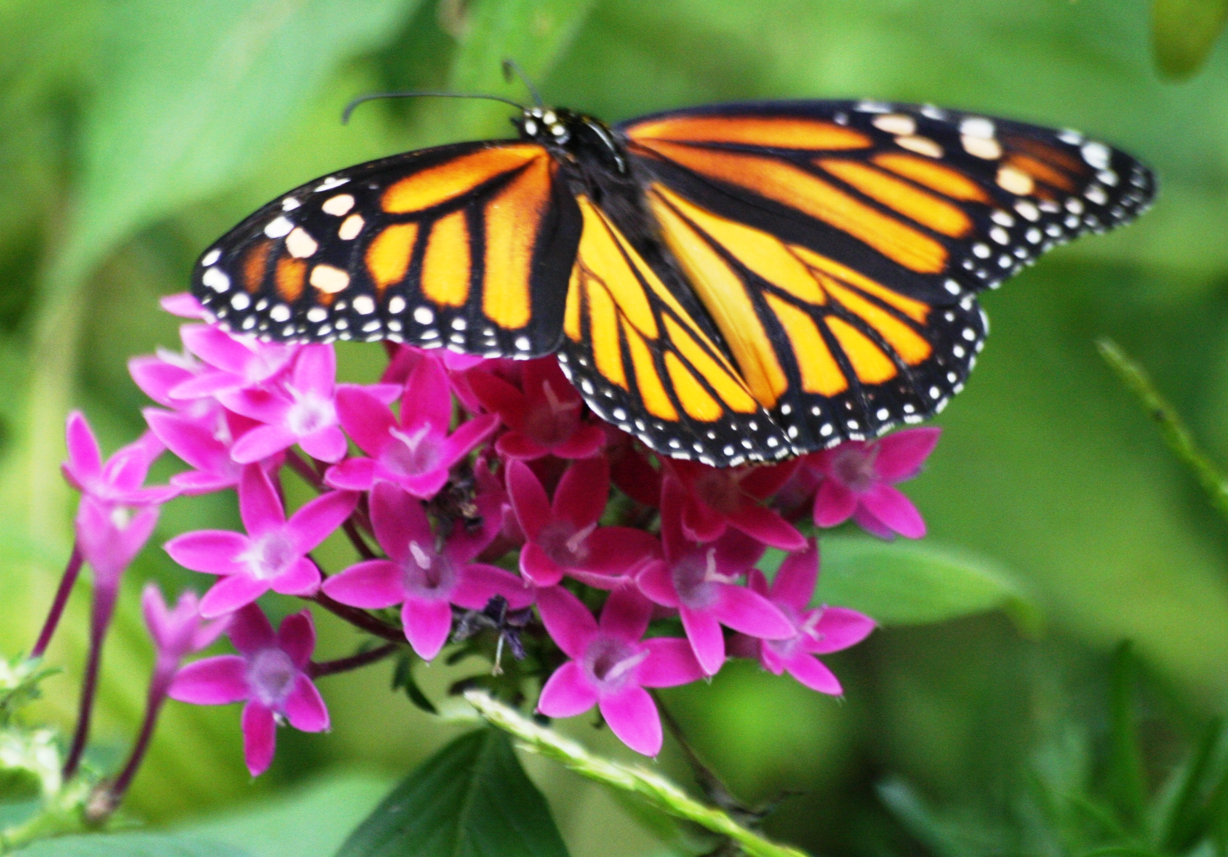 Danaus plexippus "Monarch Butterfly" from the Palmitos Park in southern Gran Canaria - Spain.